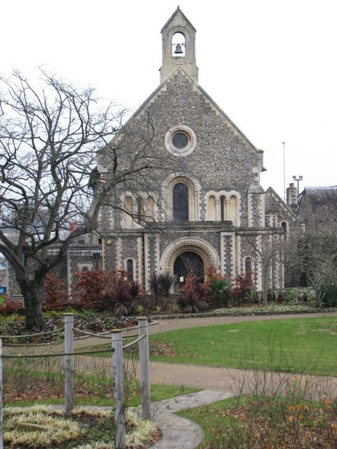 St James Catholic Church Another view of the church frontage from the Forbury Gardens.